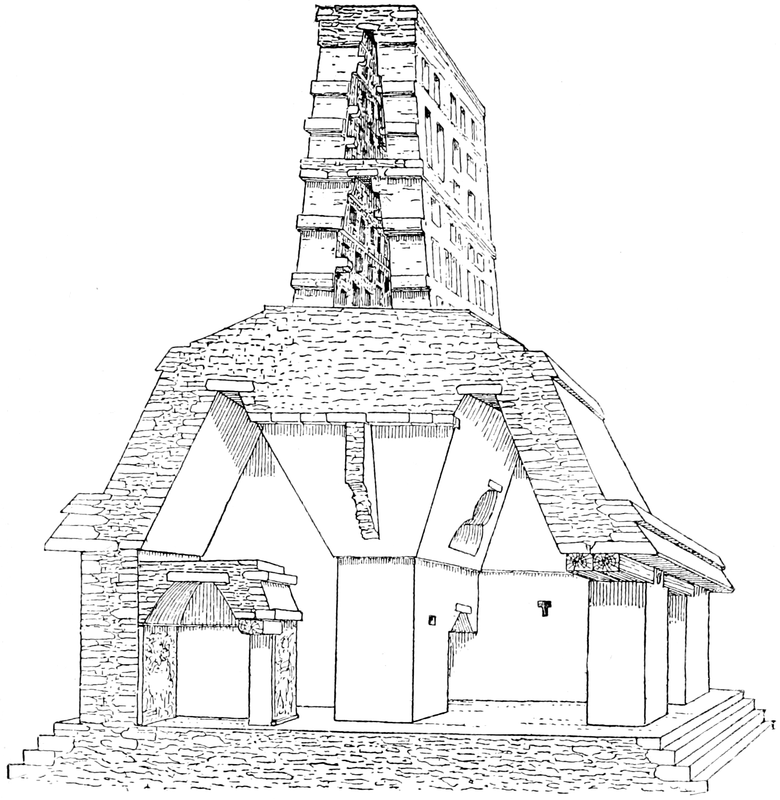 Fig. 50. A Cross-Section of the Temple of the Cross, Palenque, Chiapas. Holmes, 1895−1897. I